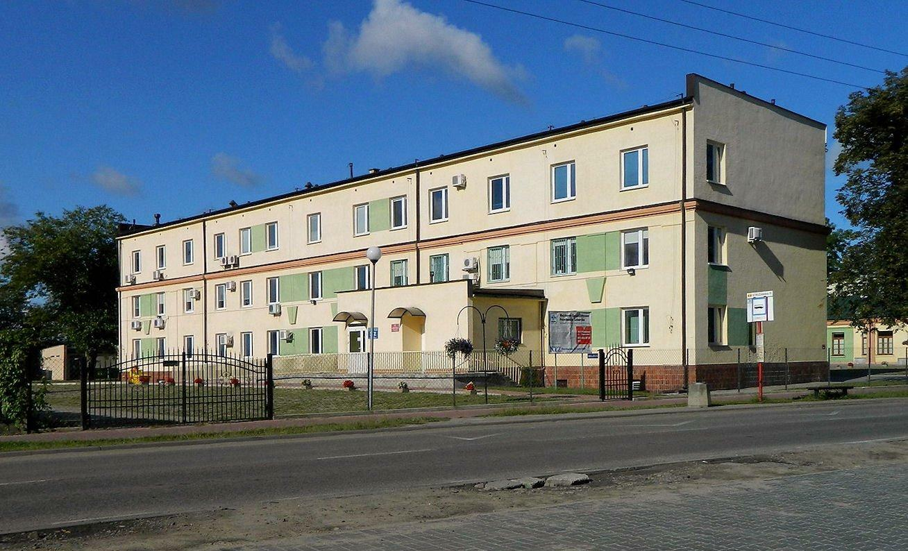 Military Polyclinic in Legionowo, Poland.